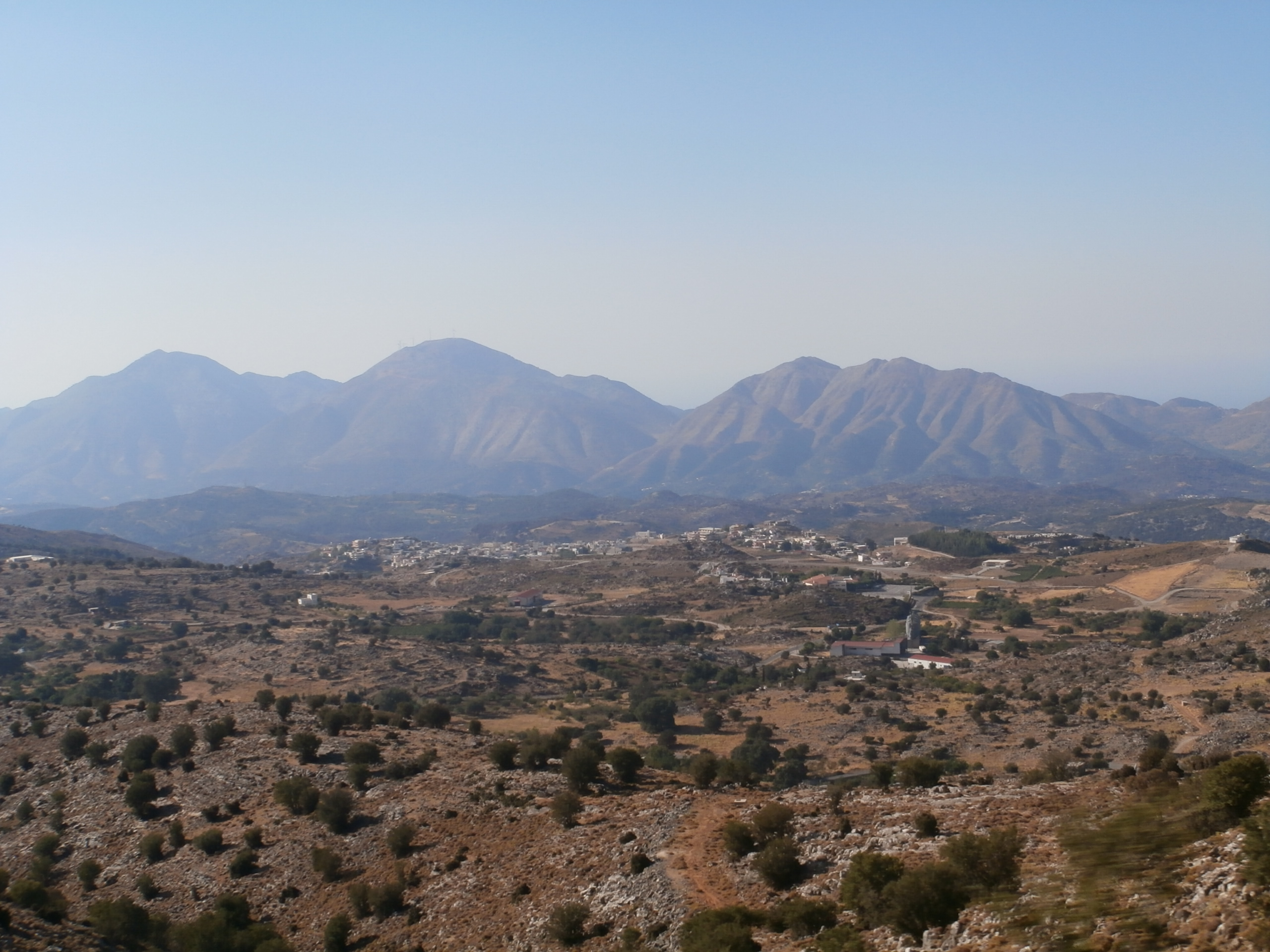 The mountain range Koulokonas and the town of Anogia as seen from South